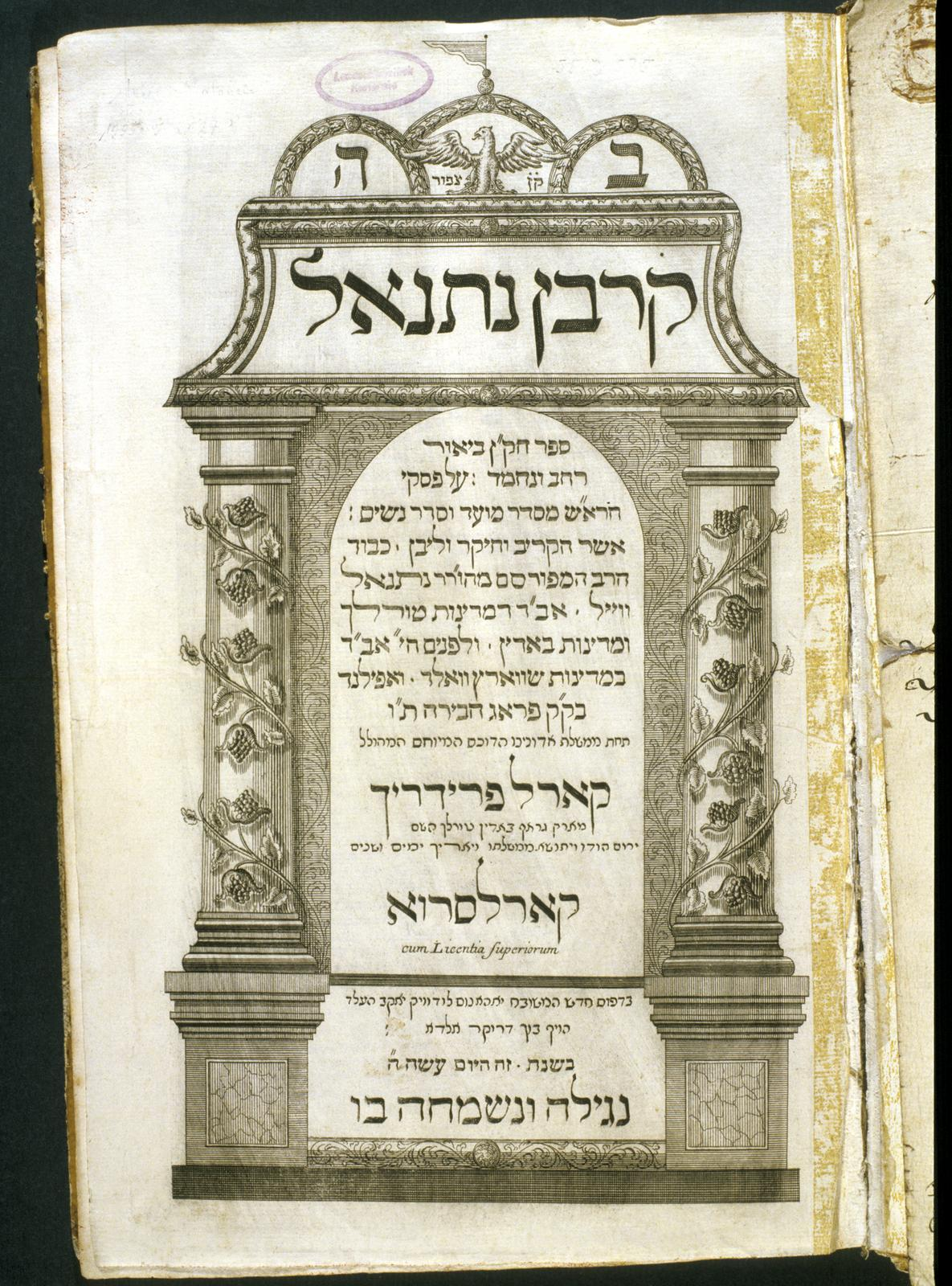 Title page of the Talmud commentary "Korban Netana'el" (Hebrew: קרבן נתנאל) by Rabbi Jacob Nathanael Weil. Published by Johannis Ludwig Jakob Held, Karlsruhe 1755.